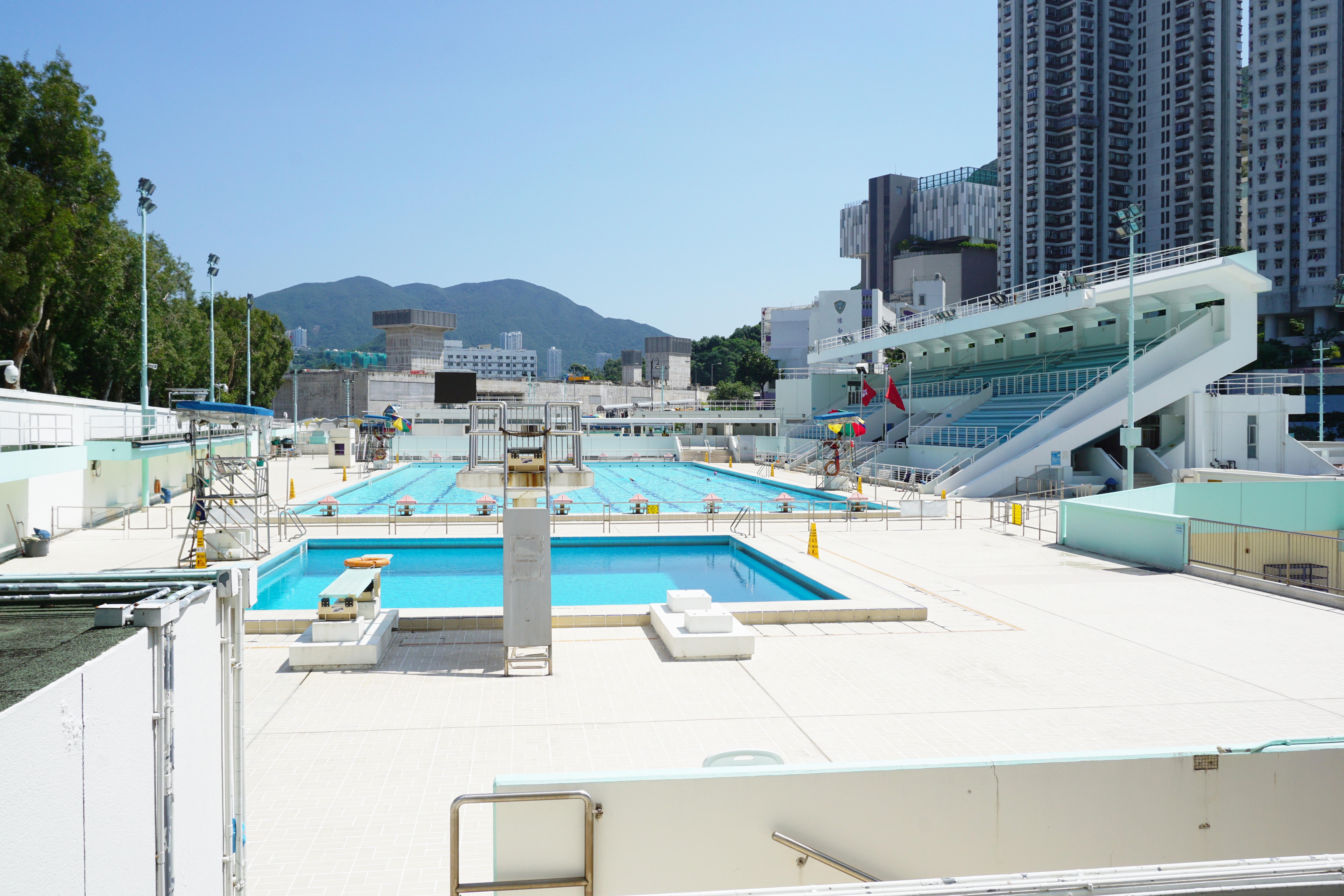 Pao Yue Kong Swimming Pool in Wong Chuk Hang, Hong Kong.